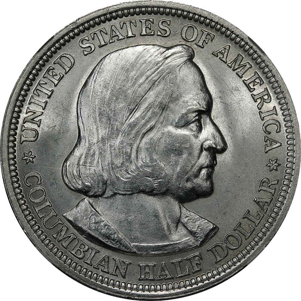 The obverse of the Columbian half dollar commemorative coin minted in 1892 and 1893. This particular coin is dated 1893 and is graded MS62 by the Numismatic Guaranty Corporation (NGC) and housed in a plastic NGC EdgeView holder.